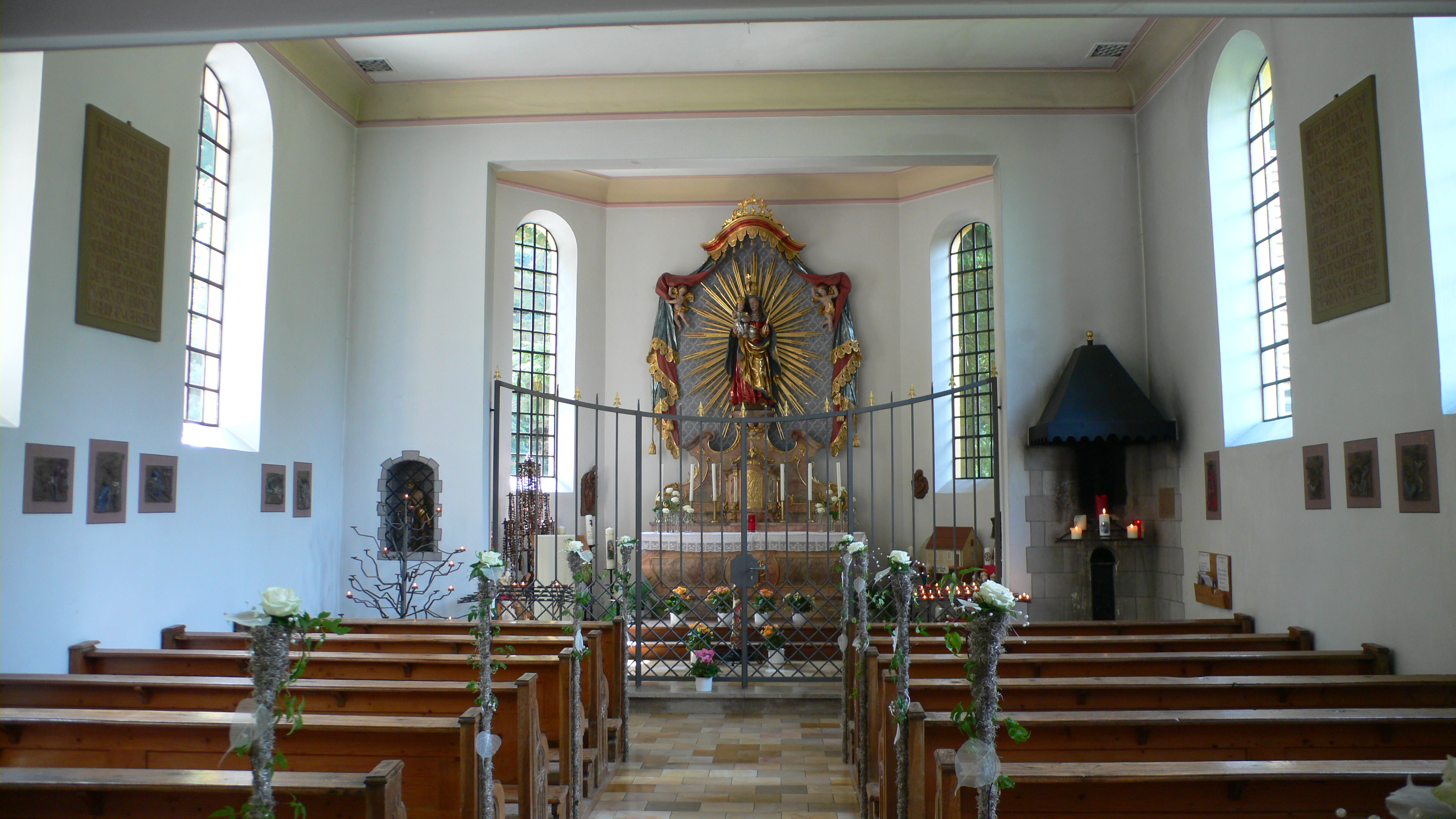 Unterbaar, view of the Pilgrimage Chapel "Maria im Elend" facing east.